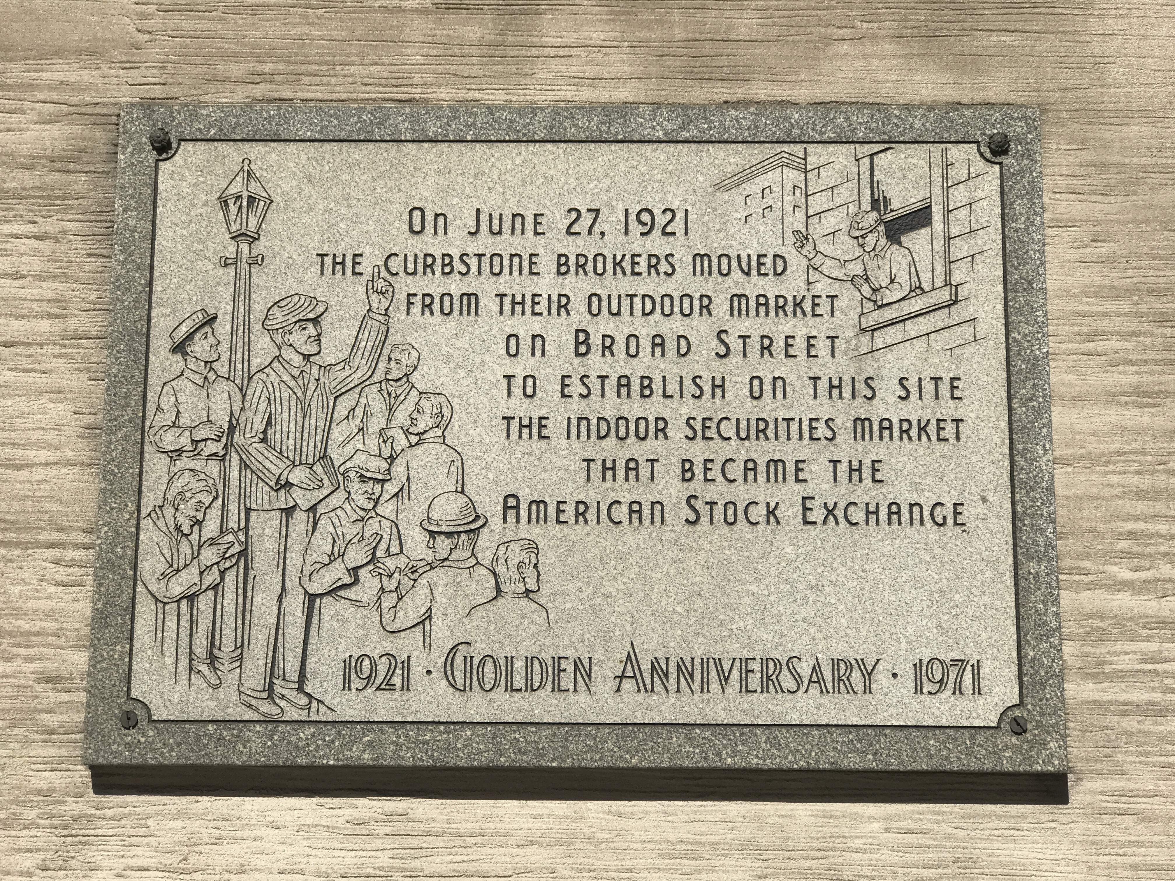 A picture of the plaque directly above the 1930 cornerstone of the American Stock Exchange in New York City. The plague is grey with sketched pictures of stockbrokers outside a building, next to a lamp-post. The text reads: "On June 27, 1921, the curbstone brokers moved from their outdoor Market on Broad Street to establish on this site the indoor securities market that became the American Stock Exchange. 1921-Golden Anniversary-1971."